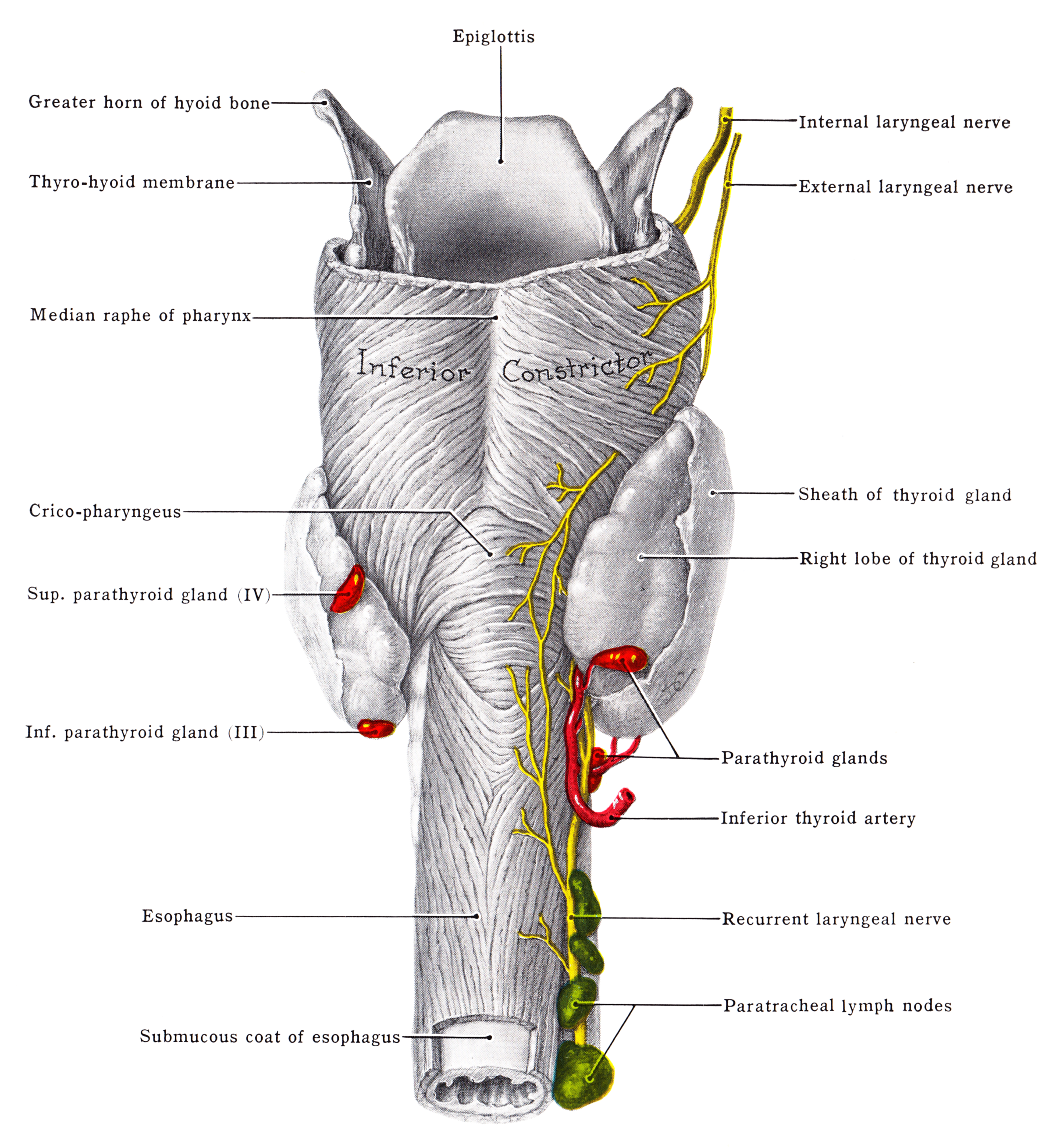 Thyroid Gland, the Parathyroid Glands, and the Three Laryngeal Nerves, from behind